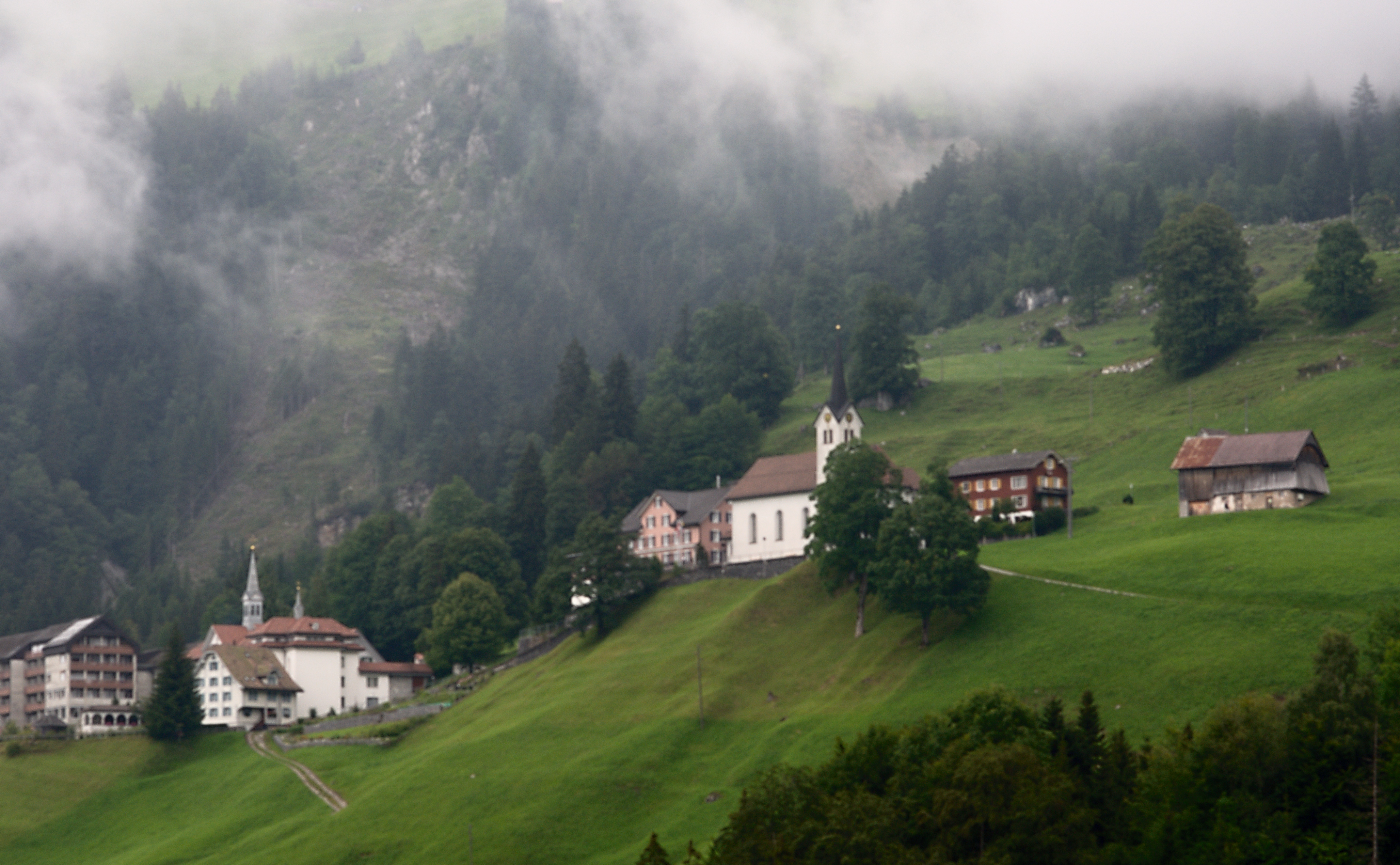 The village of Niederrickenbach with its Benedictine womens' monastery, seen from South